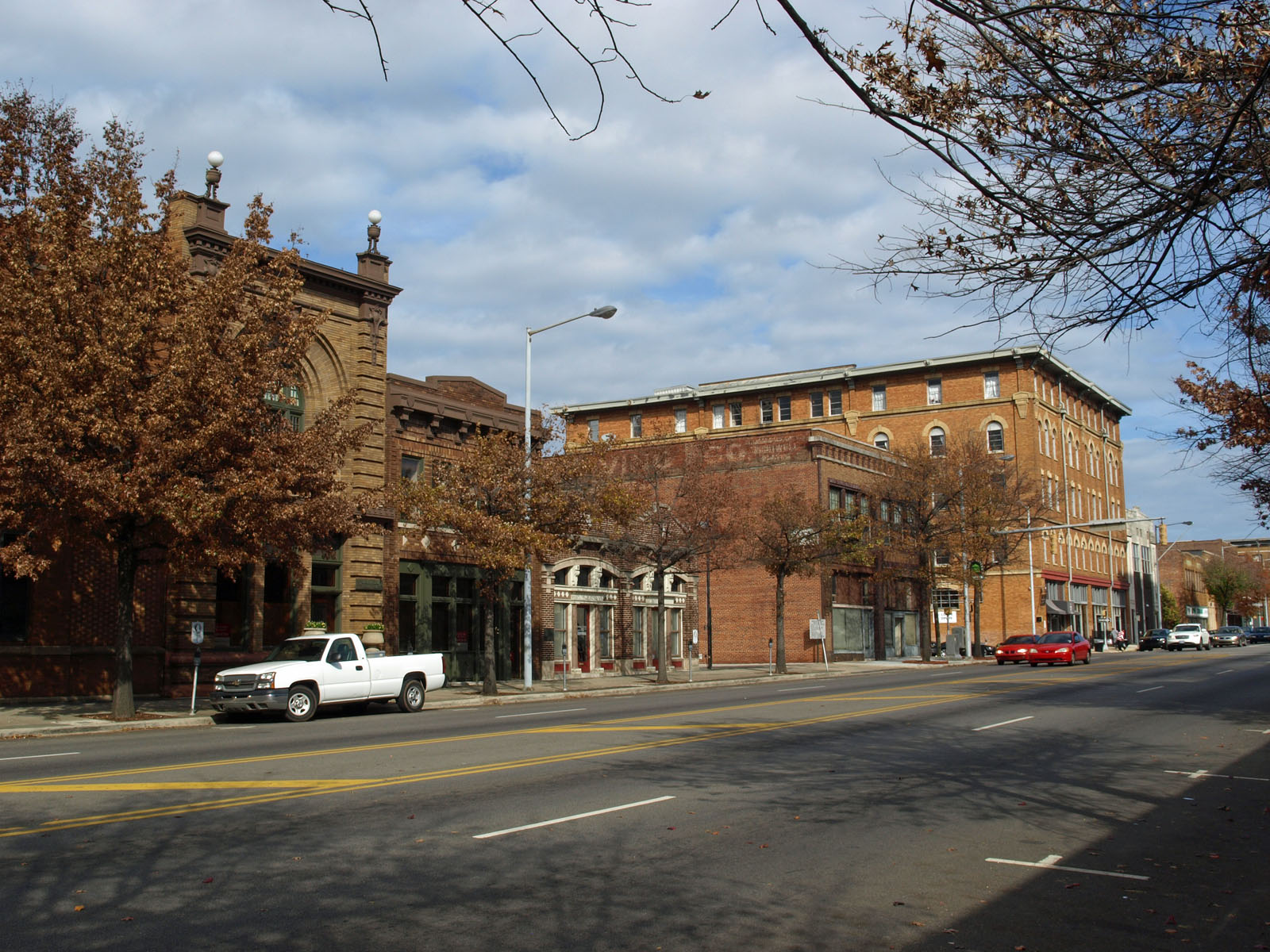 Buildings on 1st Avenue North in Birmingham, Alabama, part of the Morris Avenue-First Avenue North Historic District.